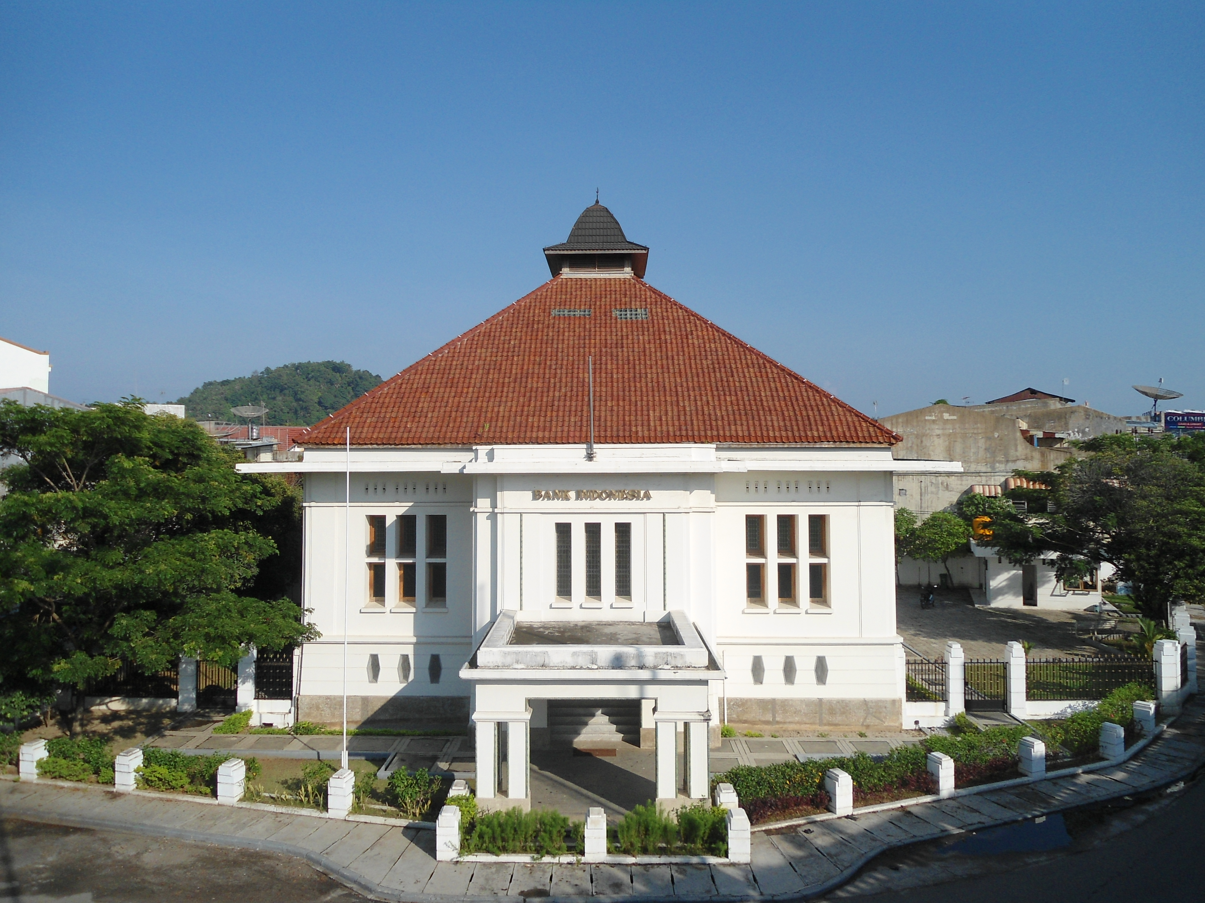 Gedung Bank Indonesia Lama di Padang, dekat Jembatan Sitti Nurbaya.